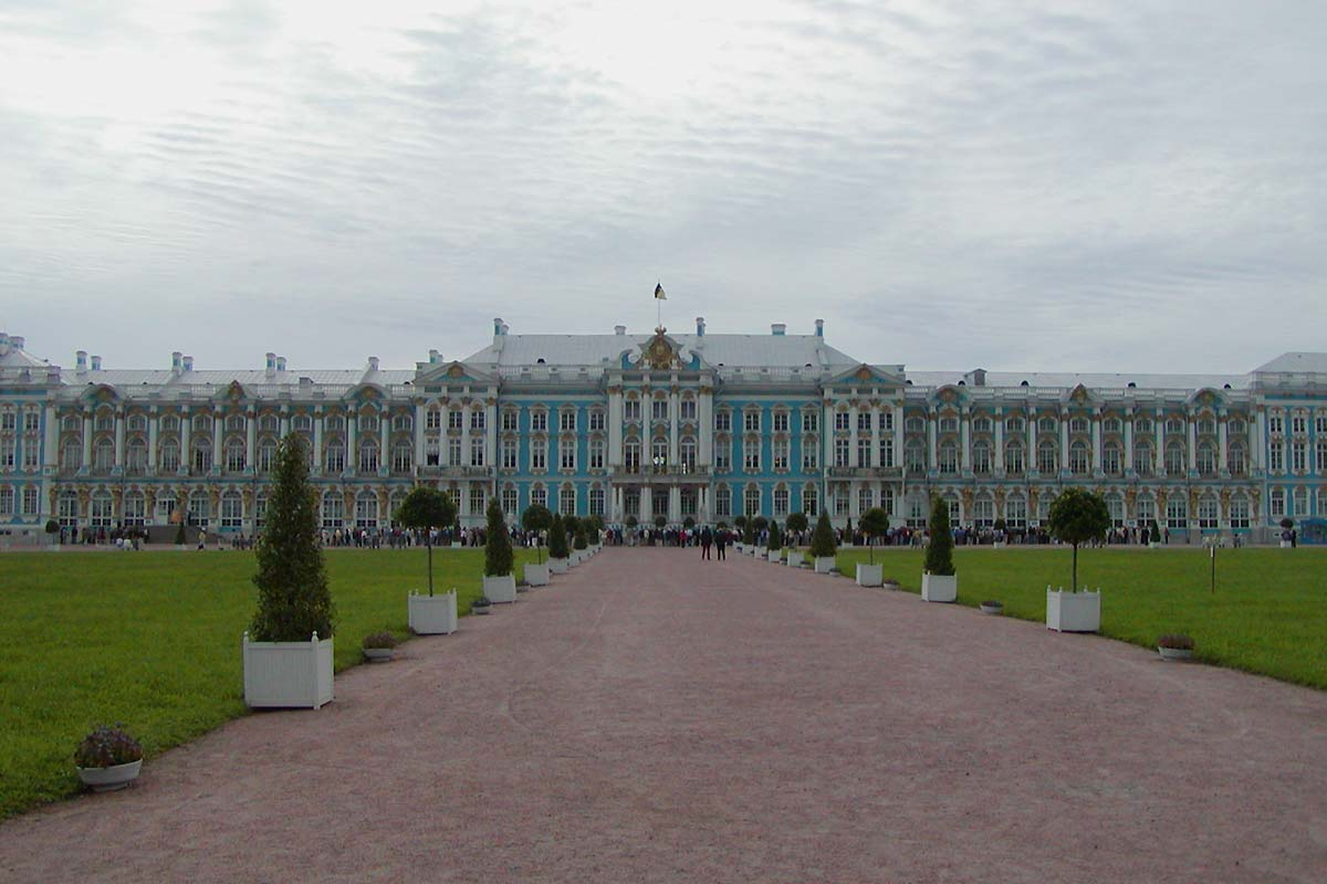 Pushkin (Russia), Catherine Palace